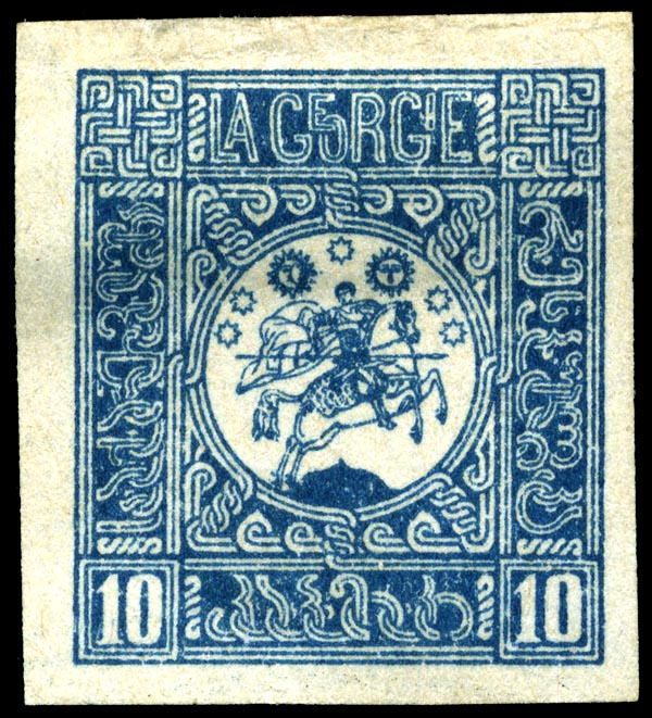 Georgia 10-ruble stamp of 1920, scanned October 2005 by User:Stan Shebs